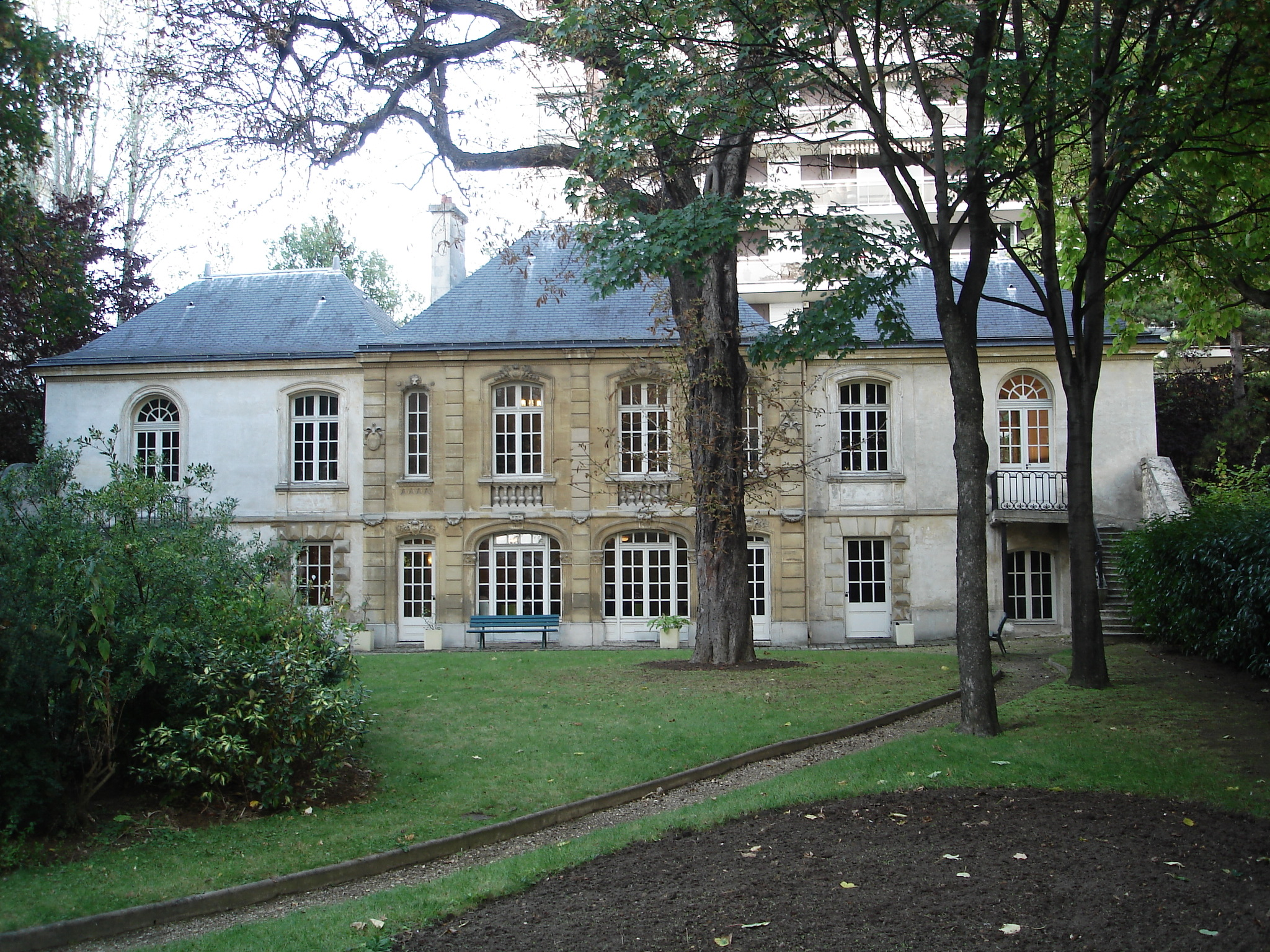 Pavilion in the back of the park of the clinic for insane people of Dr Belhomme. This clinic during the French Revolution was used to hire, against a very high sum of money, wealthy noblemen to avoid the guillotine. The clinic has been destroyed in 1972. Only remains this pavilion.